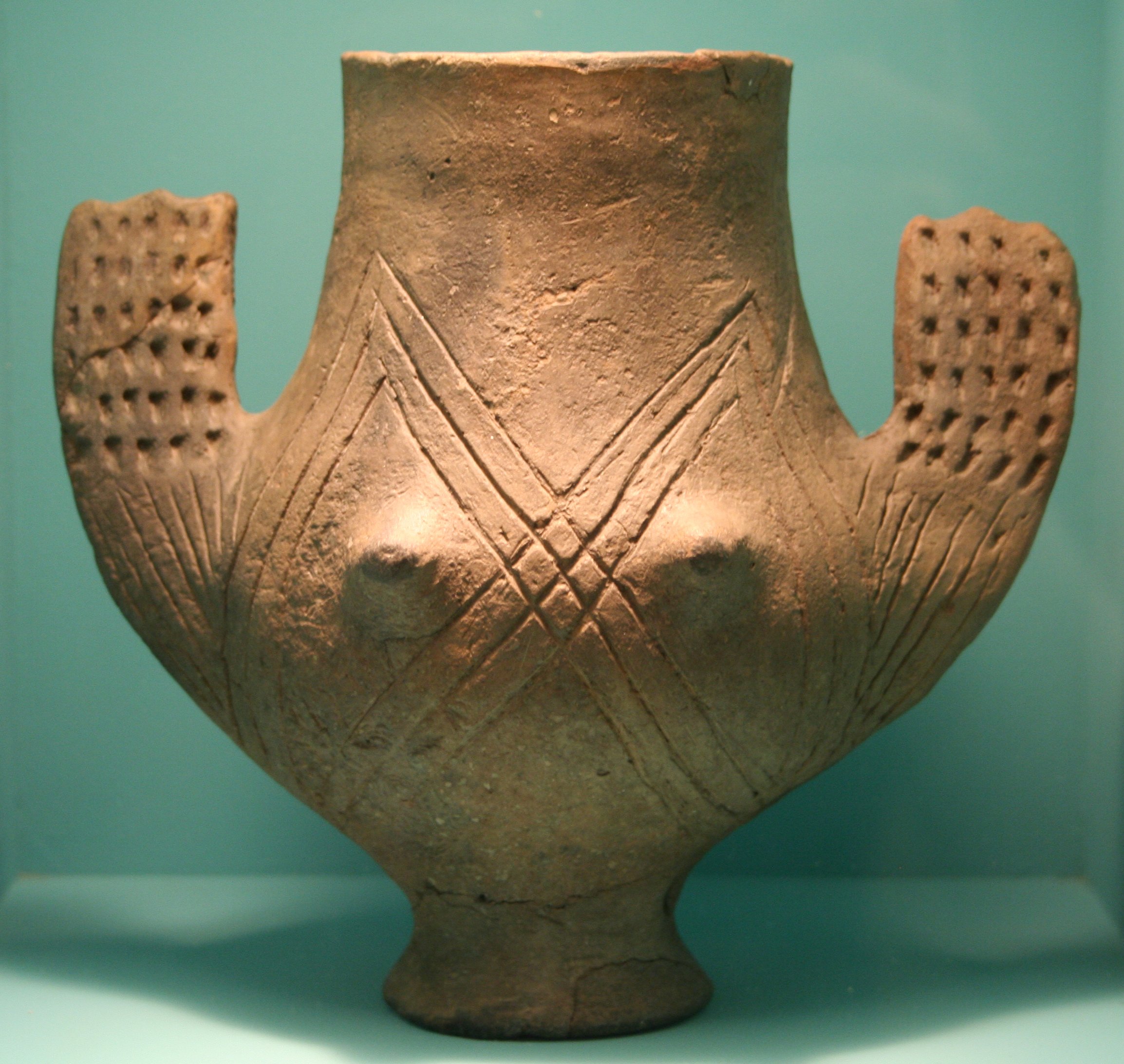 Museum für Vor- und Frühgeschichte (Museum of prehistory and early history), Berlin